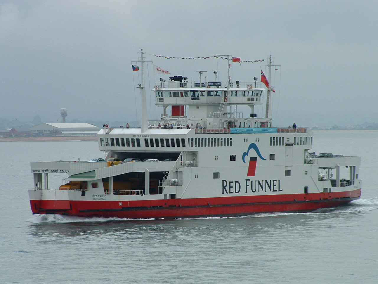 Red Eagle ferry, owned by Red Funnel. IMO Number: 9117337 MMSI Number: 232002589 Callsign: MVRW8 Length: 93 m Beam: 18 m